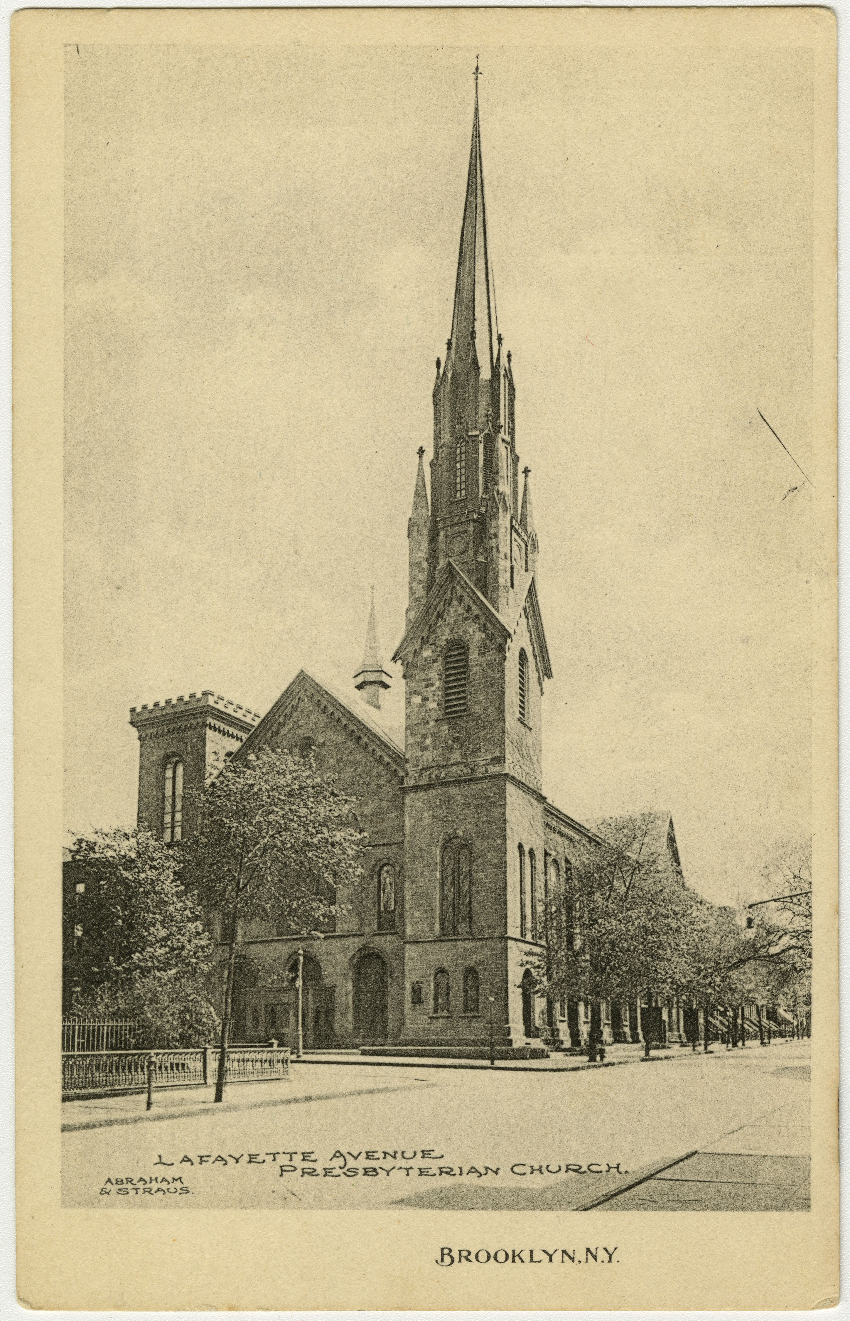 Lafayette Avenue Presbyterian Church in Brooklyn, New York from a pre-1923 postcard From RG 428, Postcard Collection, Presbyterian Historical Society, Philadelphia, Pennsylvania.